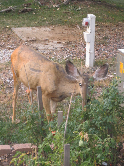 See title